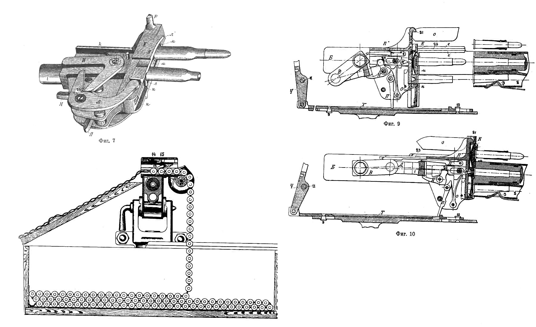 Machinegun Maxim drawing 1905